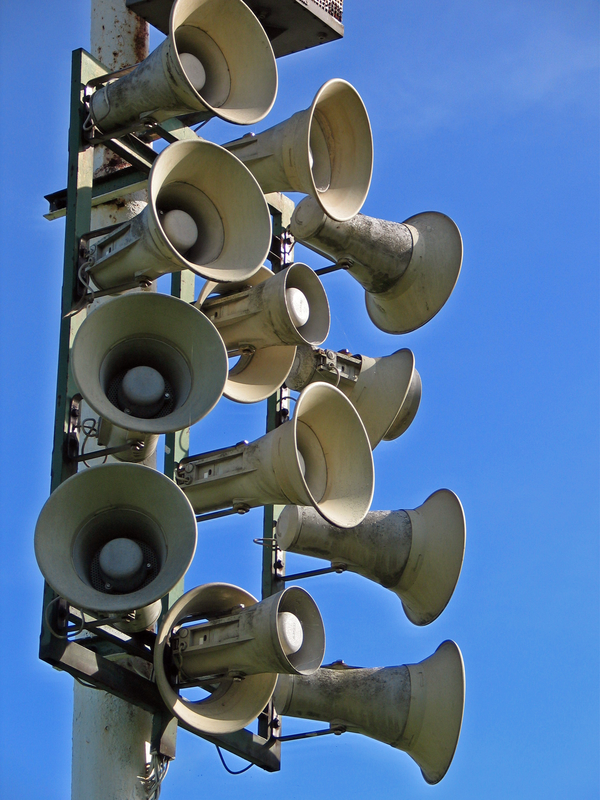 Aging horn loudspeakers on a pole at a horserace track in Cologne, Germany